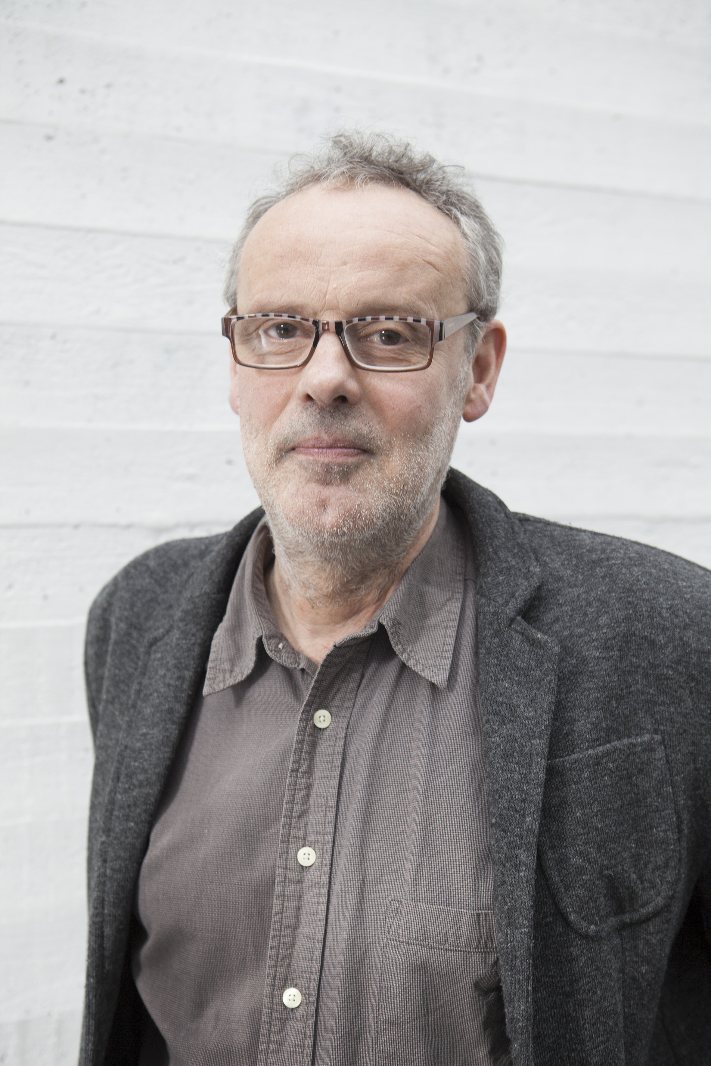 Kiasmassa taiteilija Jan Kaila artist in Kiasma photo: Kansallisgalleria / Pirje MykkänenFinnish National gallery / Pirje Mykkänen